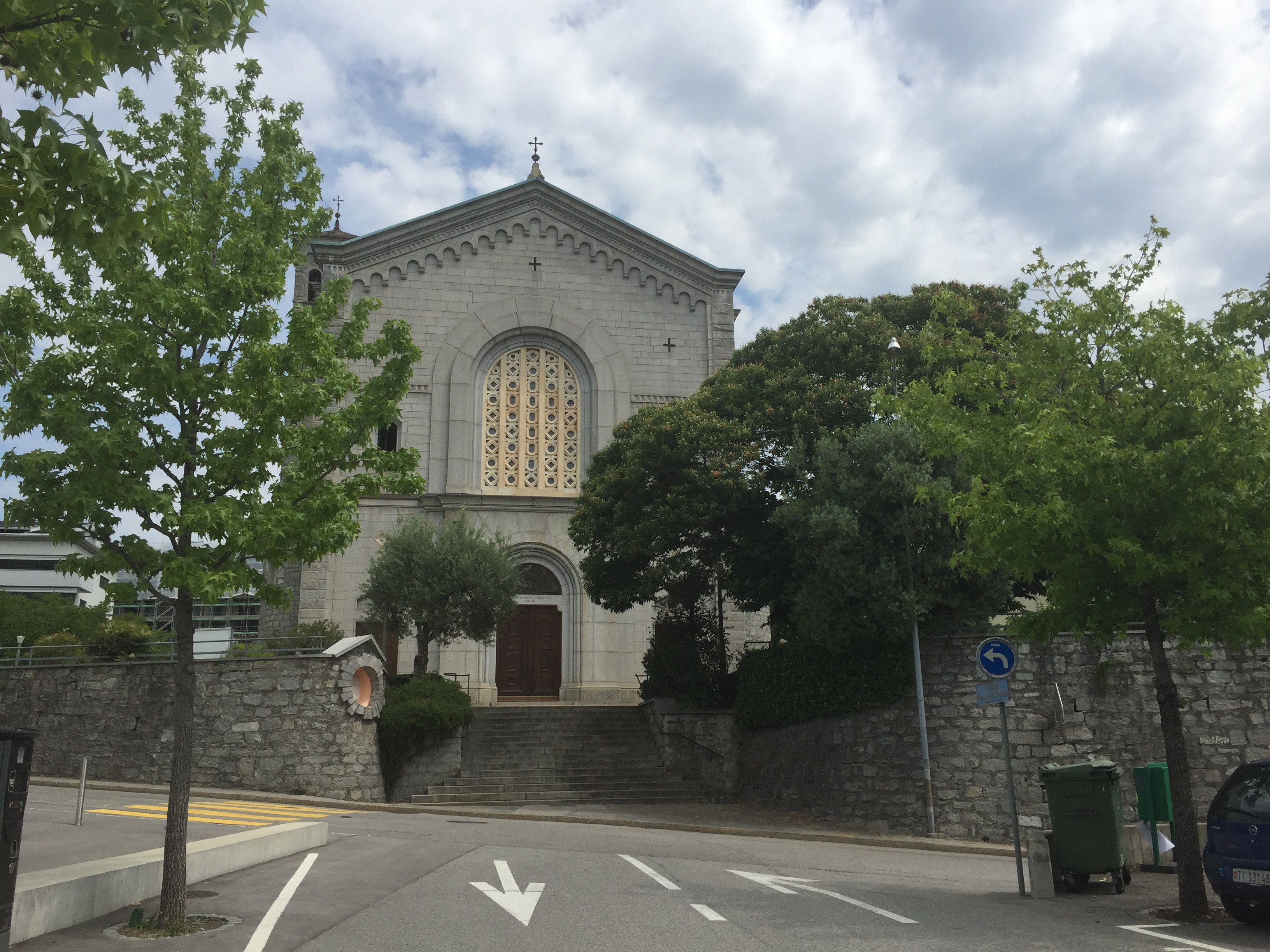 In this church, the ancient paintings of the ancient church Santa Lucia (Massagno) can be found.